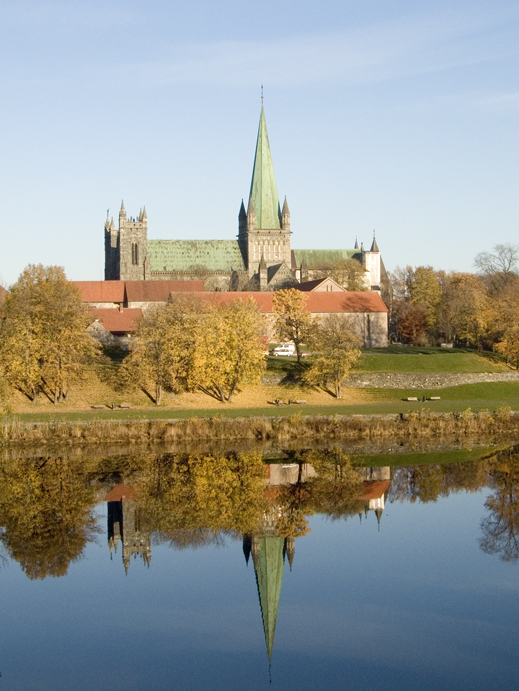 The Nidarosdomen Cathedral in autumn sun.